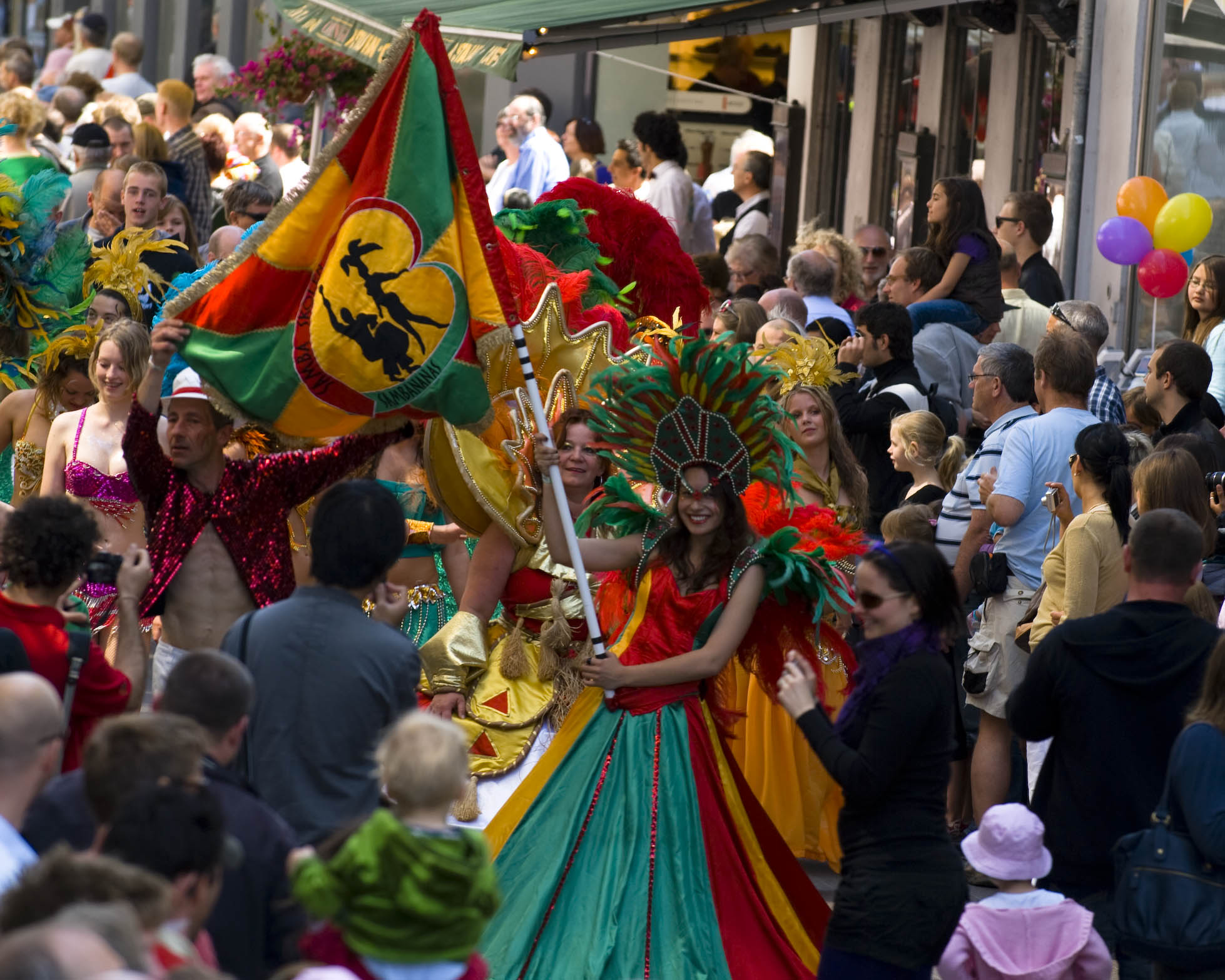 Picture from the event Copenhagen Carnival in 2009